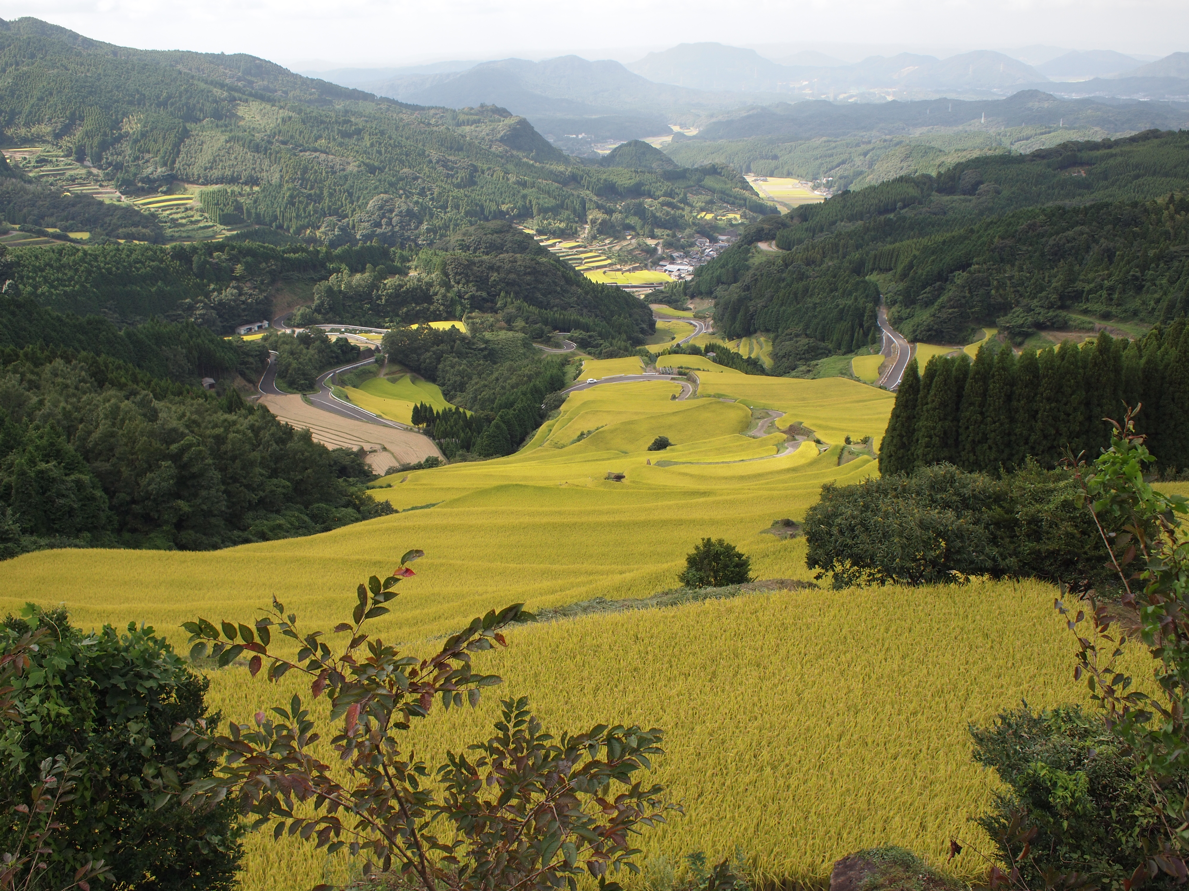 Rice terrace of Warabino(in Ouchi town, Karatsu city, Saga pref.).